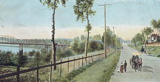 This picture is from a book published in 1900. Its copyright has expired, and it's now available freely on the web.